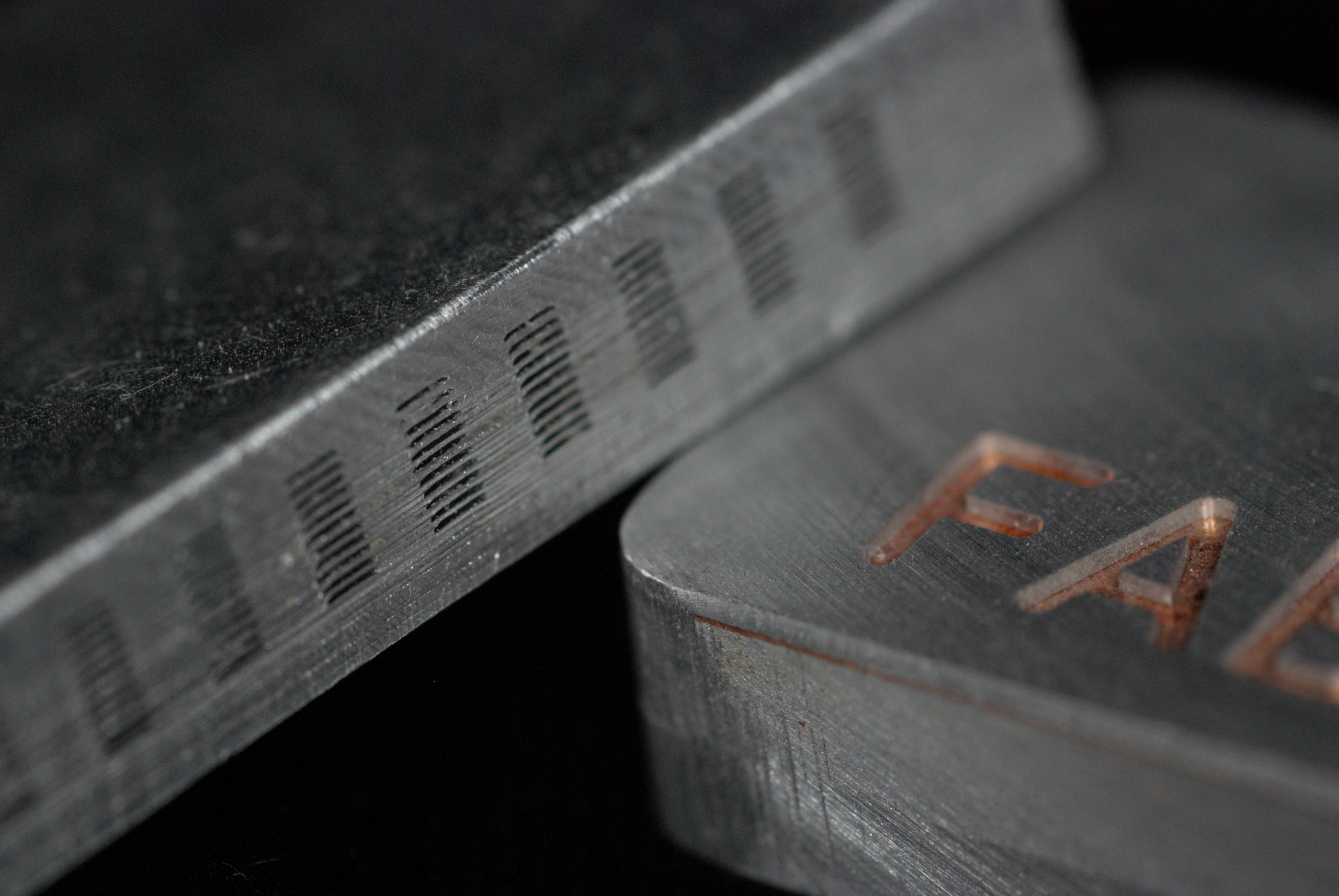 UAM Mini Heat Exchanger and Dissimilar Metal Examples